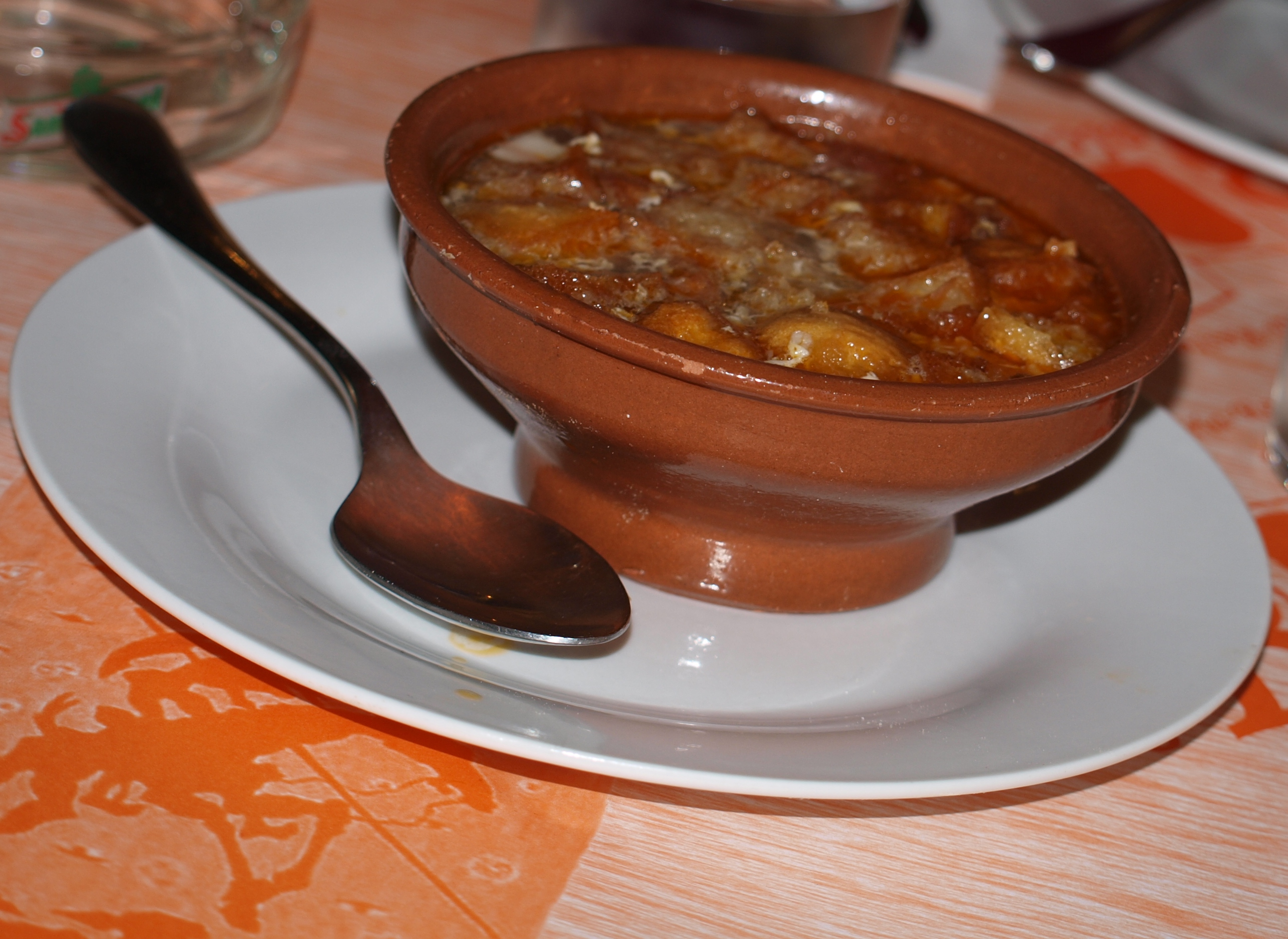 Castillian soup, from Spain.